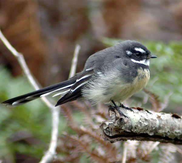 Bird, Grey Fantail